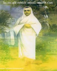 This photo was drawn by Vettavalam Zamindar when Vallalar Ramalinga adigalar visited Vettavalam town panchayat